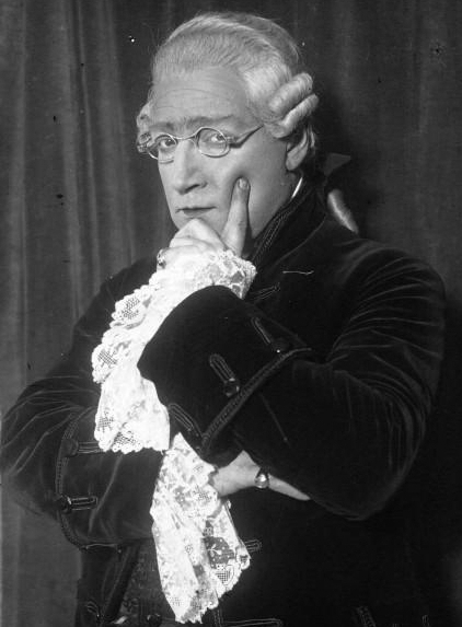 Sacha Guitry as Grimm in his musical comedy Mozart.